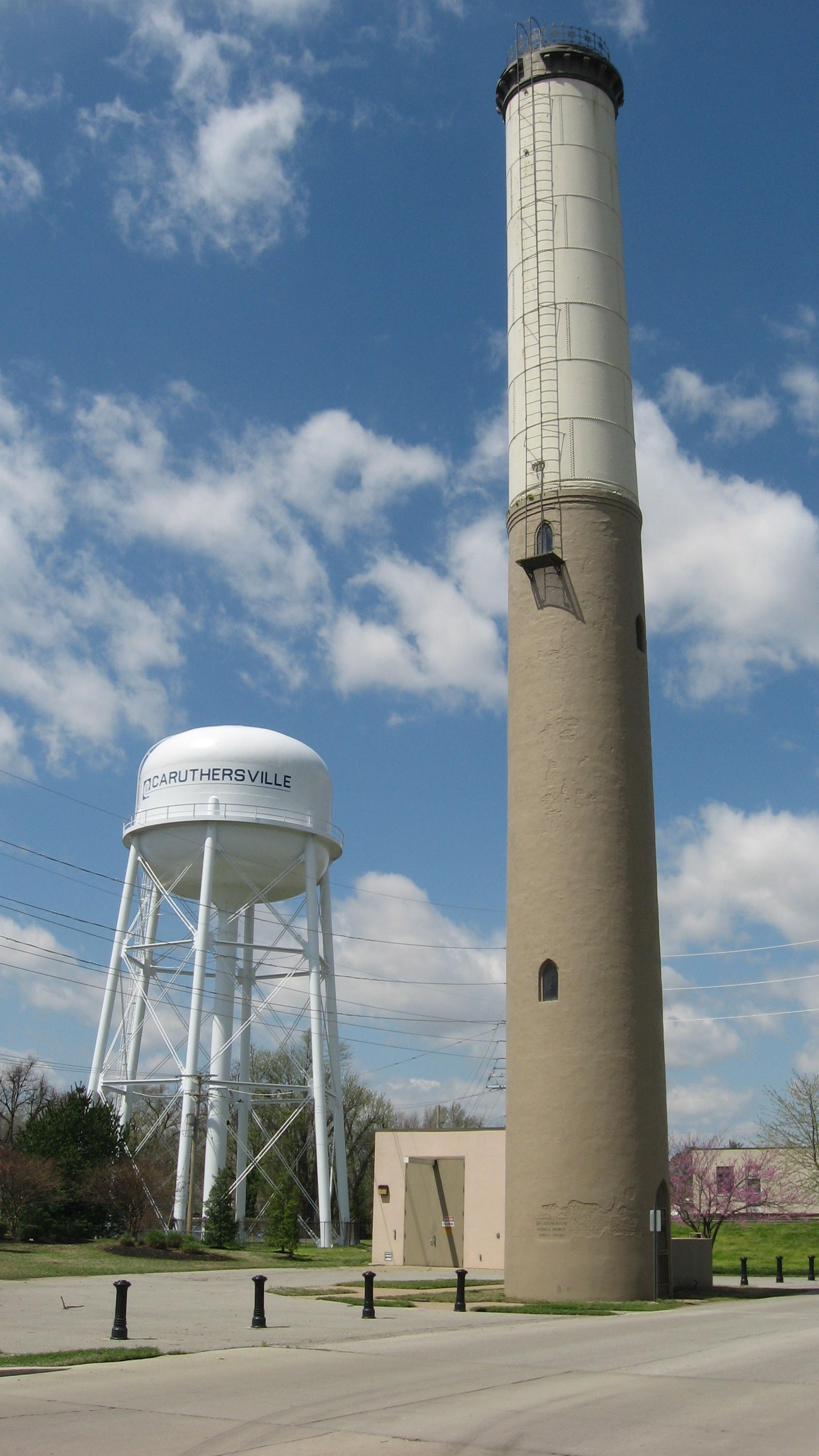 New and old water towers in Caruthersville, Missouri, United States, located along Fourth and Third Streets respectively. Built in 1903, the old tower is listed on the National Register of Historic Places.